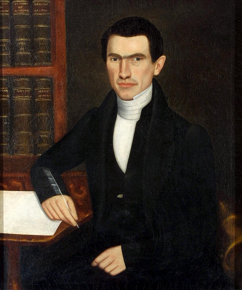 "Josiah Goddard (1813-1854)," oil on canvas, painted by the American artist Erastus Salisbury Field. 28 3/4 in. Courtesy of the Brown University Portrait Collection, Brown University, Providence, R.I.